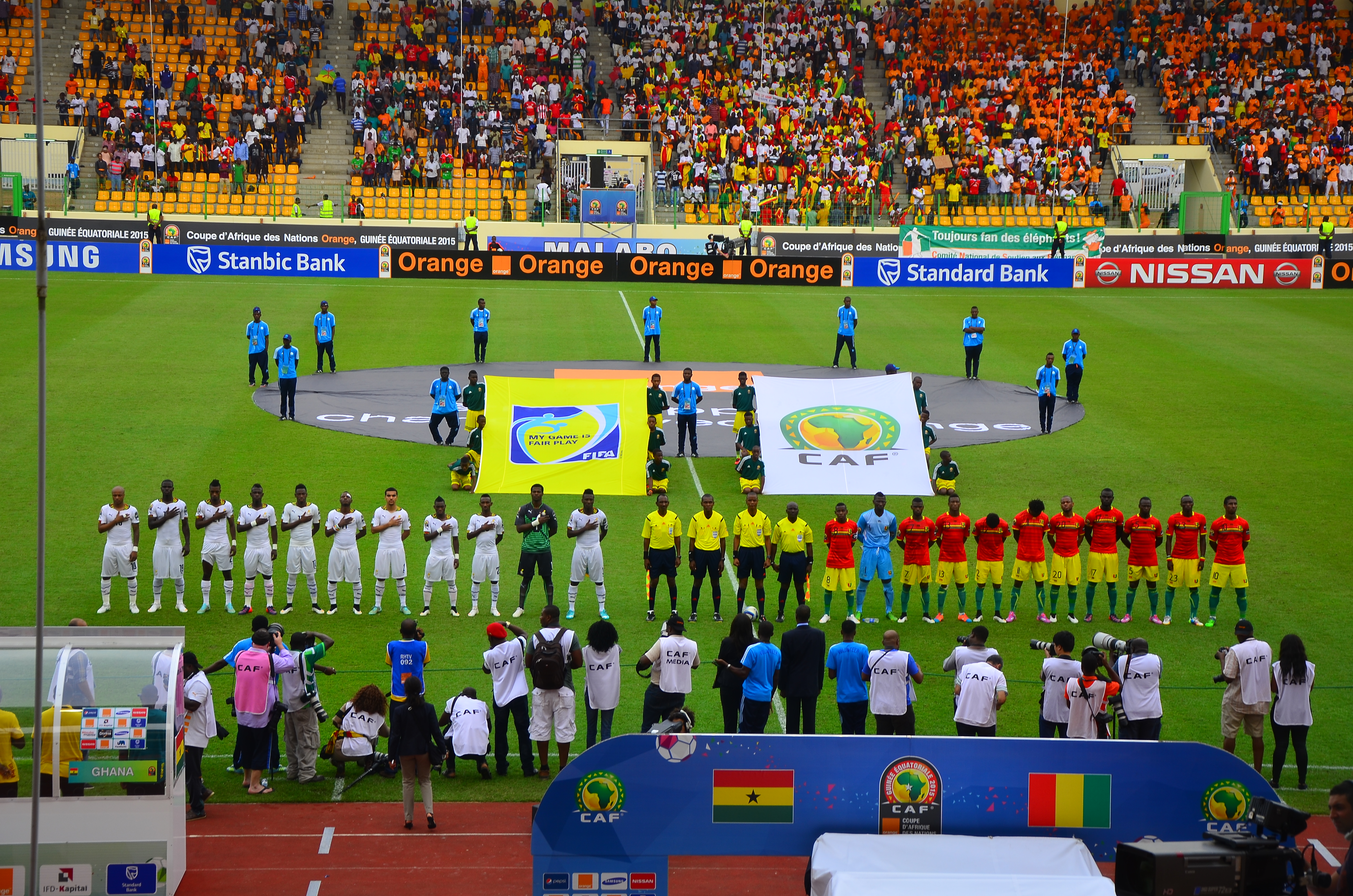 This is a picture of a soccer game (name of it is on file name).